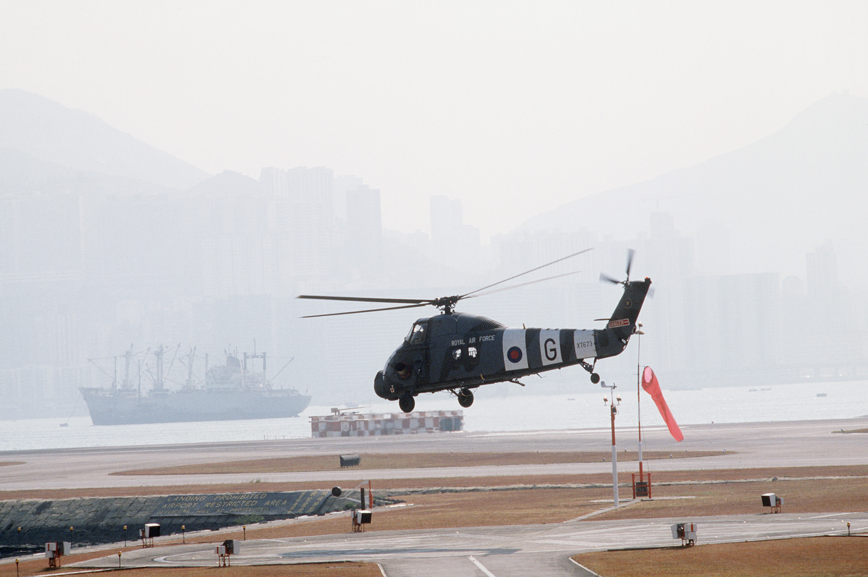 A Royal Air Force Westland Wessex HC2 helicopter (s/n XT673) from No. 28 Squadron takes off to participate in exercise "SAREX '83", a search and rescue exercise. 28 Squadron was based at RAF Sek Kong from 1978 to 1996.